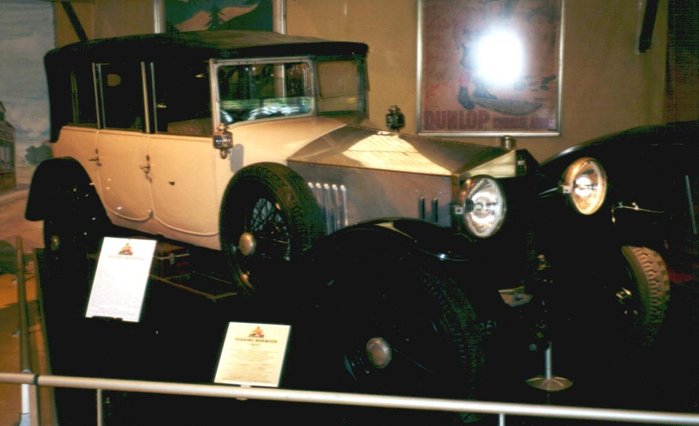 Sizaire-Berwick 1927 (Country of origin: France)